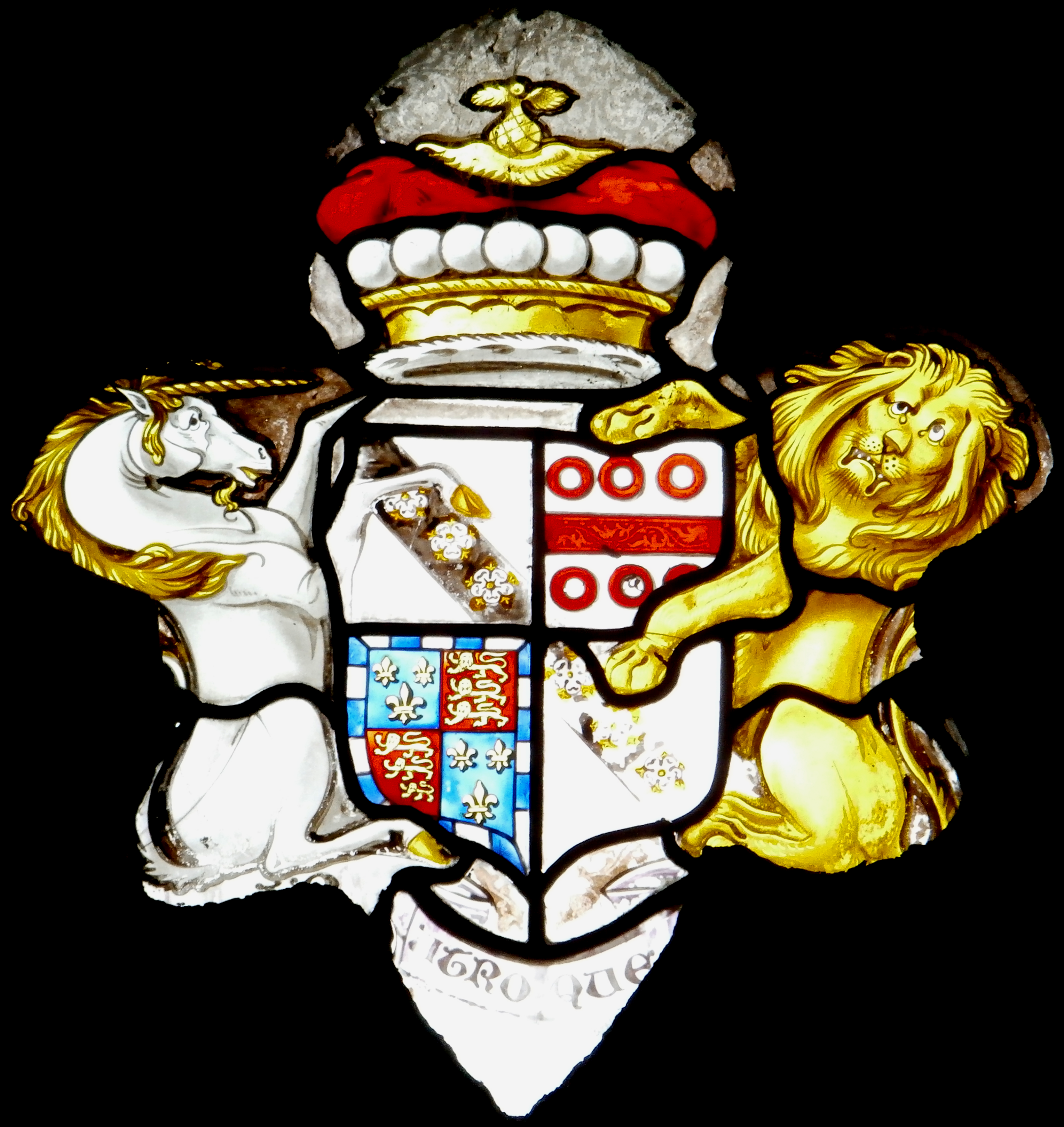 Stained glass heraldic achievement of Lucius Henry Cary, 6th Viscount Falkland (1687-1730) (or of one of his descendants), south chancel window, All Saints Church, Clovelly, Devon. (Re-reversed image, glass fitted in church window reversed). Elizabeth Cary, the last of the Cary family of Clovelly, died in 1738 and the manor was sold by her husband Robert Barber in 1739. There is no reason to suppose that Cary arms were affixed inside the church after that date. Arms: quarterly of 4: 1&4: Argent, on a bend sable three roses of the field (here seeded and barbed or) (Cary); 2: Argent, a fess between six annulets gules (Lucas, for his mother Hon. Anne Lucas, eldest daughter and co-heiress of Charles Lucas, 2nd Baron Lucas of Shenfield); 3: Beaufort, for Eleanor Beaufort, daughter of Edmund Beaufort, 2nd Duke of Somerset (1406–1455), KG, and wife of Sir Robert Spencer (d.pre-1510) traditionally "of Spencer Combe", in the parish of Crediton in Devon. Above is a viscount's coronet, here shown with 7 pearls instead of the correct 9. Below is the motto of Viscount Falkland: In Utroque Fidelis. Supporters: Dexter: A unicorn argent, armed crined tufted and unguled or; Sinister: A lion guardant proper ducally crowned and gorged with a plain collar or. Crest: A swan, wings elevated proper (Debrett's Peerage, 1968, p.438, Viscount Falkland). Viscount Falkland usually displays the arms of Spencer of Spencercombe in the 2nd quarter, not Lucas.